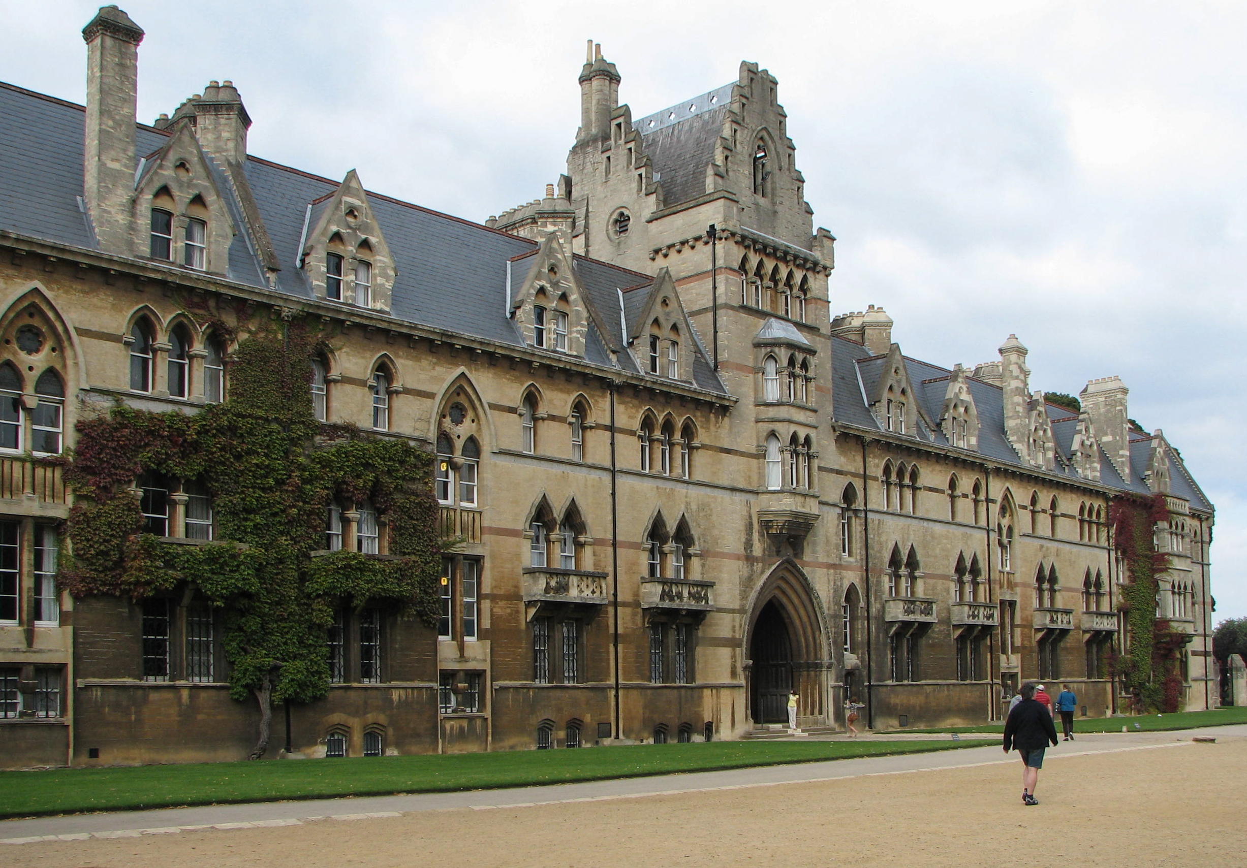 Meadow Building, Christ Church, Oxford, England